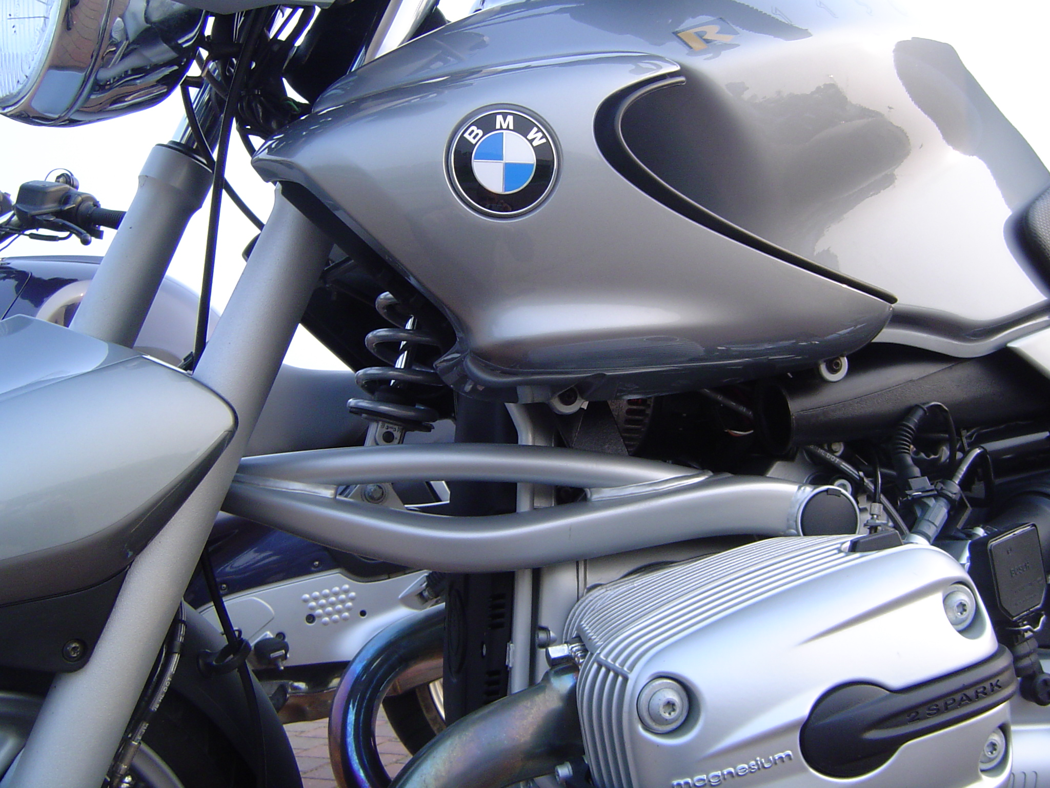 BMW's Telelever front suspension on a R1150R: the carrier arm hinges at the motor block and is attached to the front fork with a coupling (not-visible).